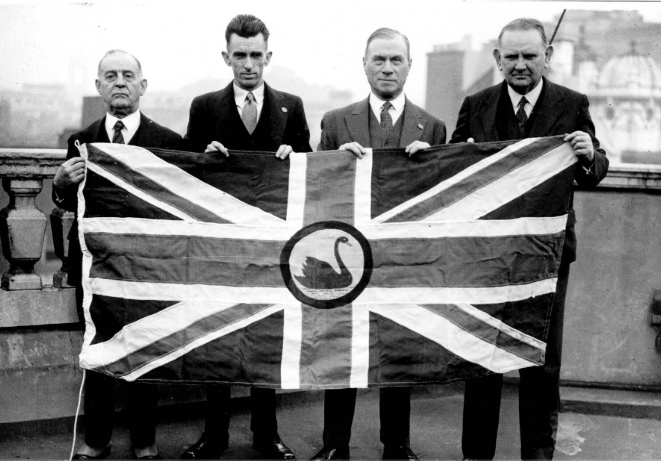 Matthew Lewis Moss, H.K. Watson, James MacCallum Smith and Sir Hal Colebatch at London's Savoy Hotel in 1934 displaying the flag for a proposed Dominion of Westralia. The delegation was attempting to convince the British Government for the right for Western Australia to secede from the Australian federation.